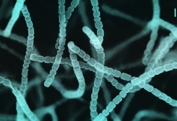 This image is courtesy of the Actinomycetes Society of Japan. The original authors are S. Amano, S. Miyadoh & T. Shomura, Used with permission.